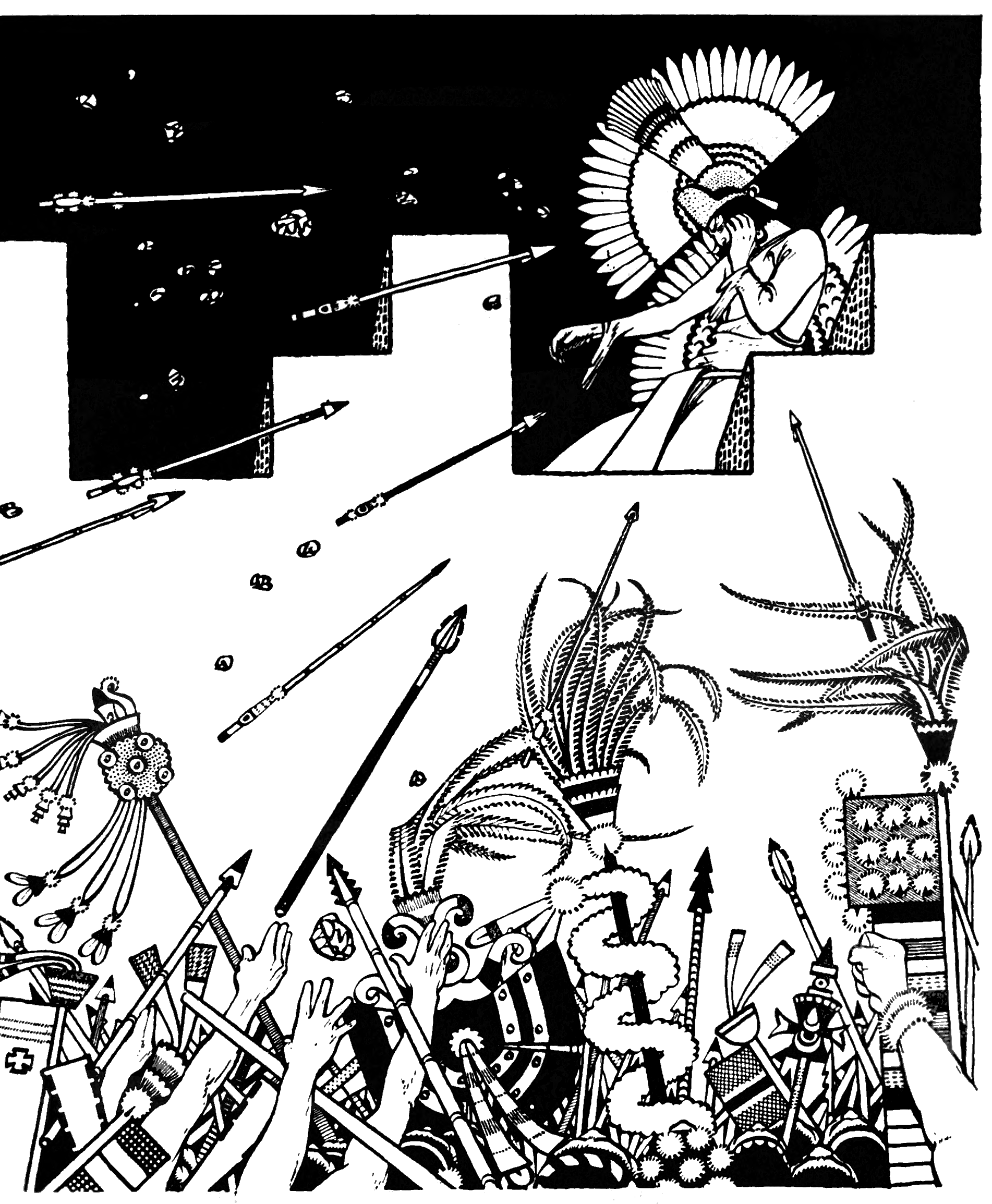 The swollen tide of their passions broke through all barriers of ancient reverence 2